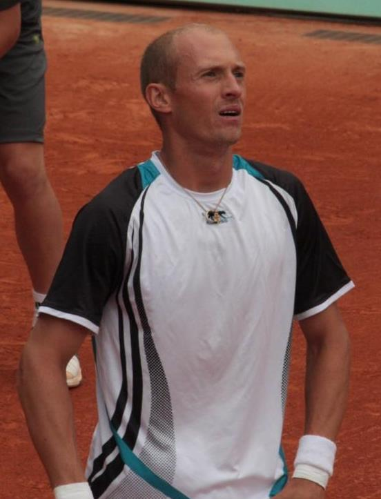 Nikolay Davydenko at 2009 Roland Garros, Paris, France